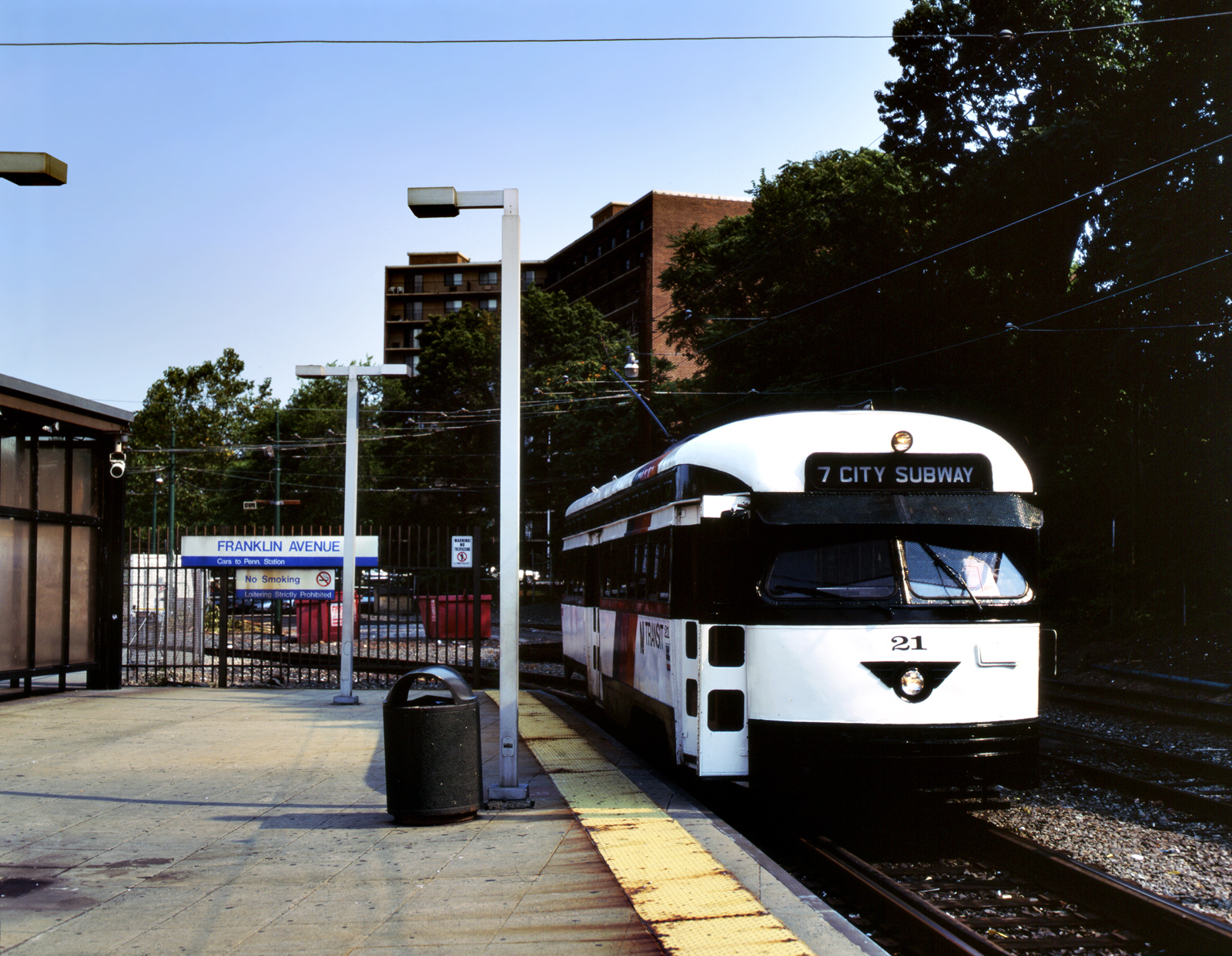 PCC in Newark